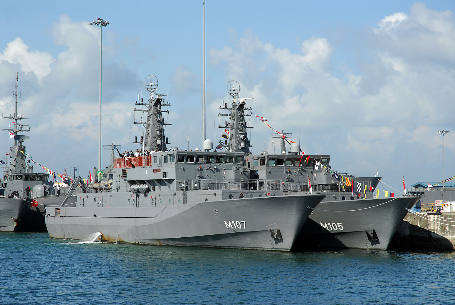 The Republic of Singapore Navy Bedok-class mine countermeasures vessels RSS Katong (M107) and RSS Bedok (M105) at Changi Naval Base during the Navy Open House 2007.